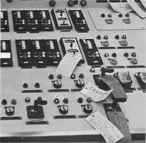 Control panel of TMI-2, showing maintenance tags that operators testified covered one of the closed emergency feedwater valve indicator lights during the first 8 minutes of the accident.